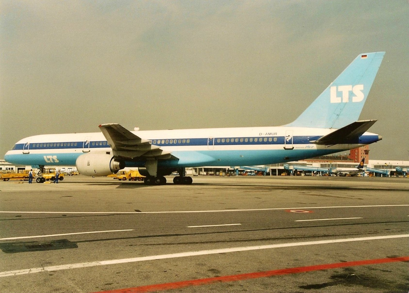 German Airline LTS – Lufttransport Süd first Boeing 757 Registration D-AMUR at Munich Airport Riem in the Year 1986